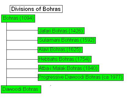 The divisions of the Mustaali, sometimes referred to as Bohras.